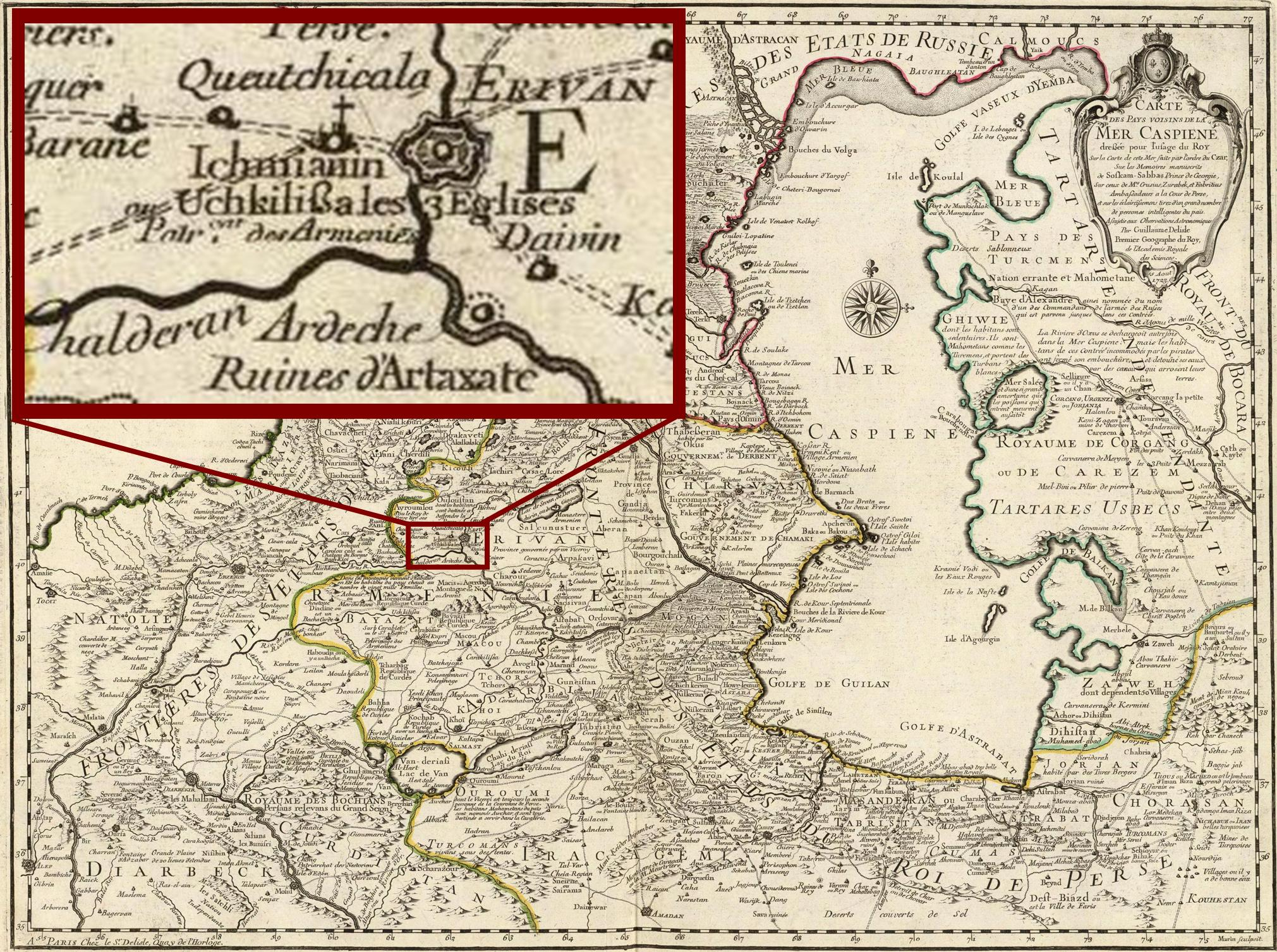 Vagharshapat mentioned as Ichmiatsin and Uchkilisa on the map of Guillaume Delisle